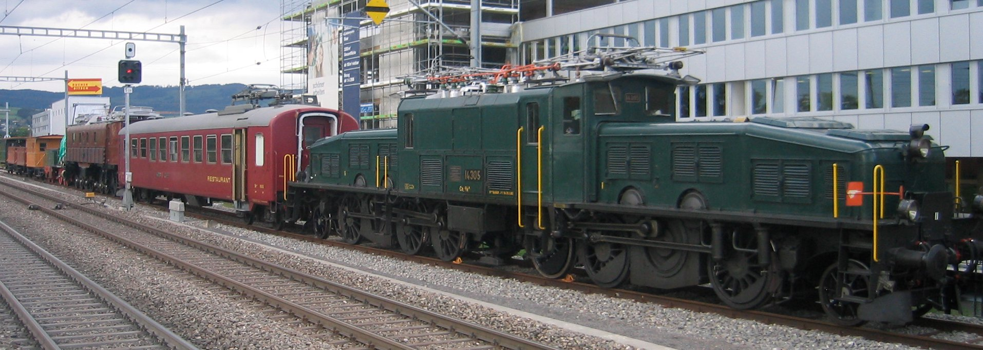 Historic vehicles in Lindenpark Baar / CH